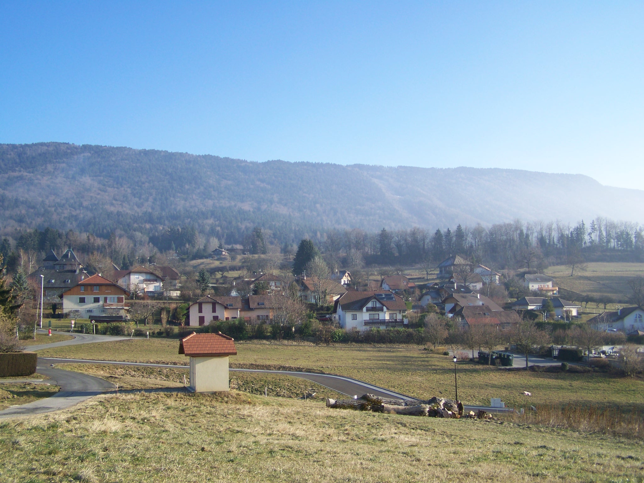 French commune of Quintal situated at the foot of the Semnoz mount, near Annecy in Haute-Savoie.